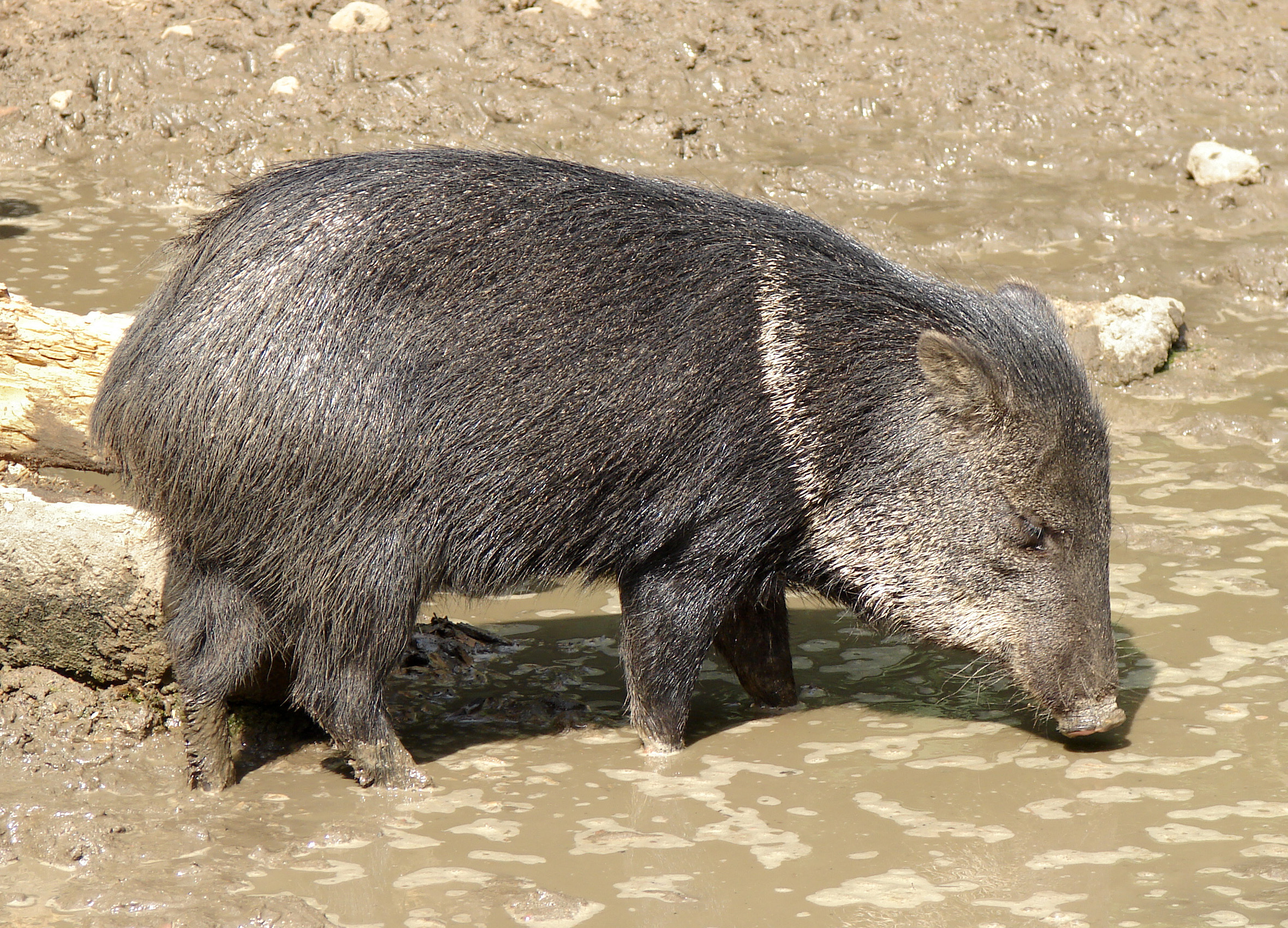 Collared Peccary